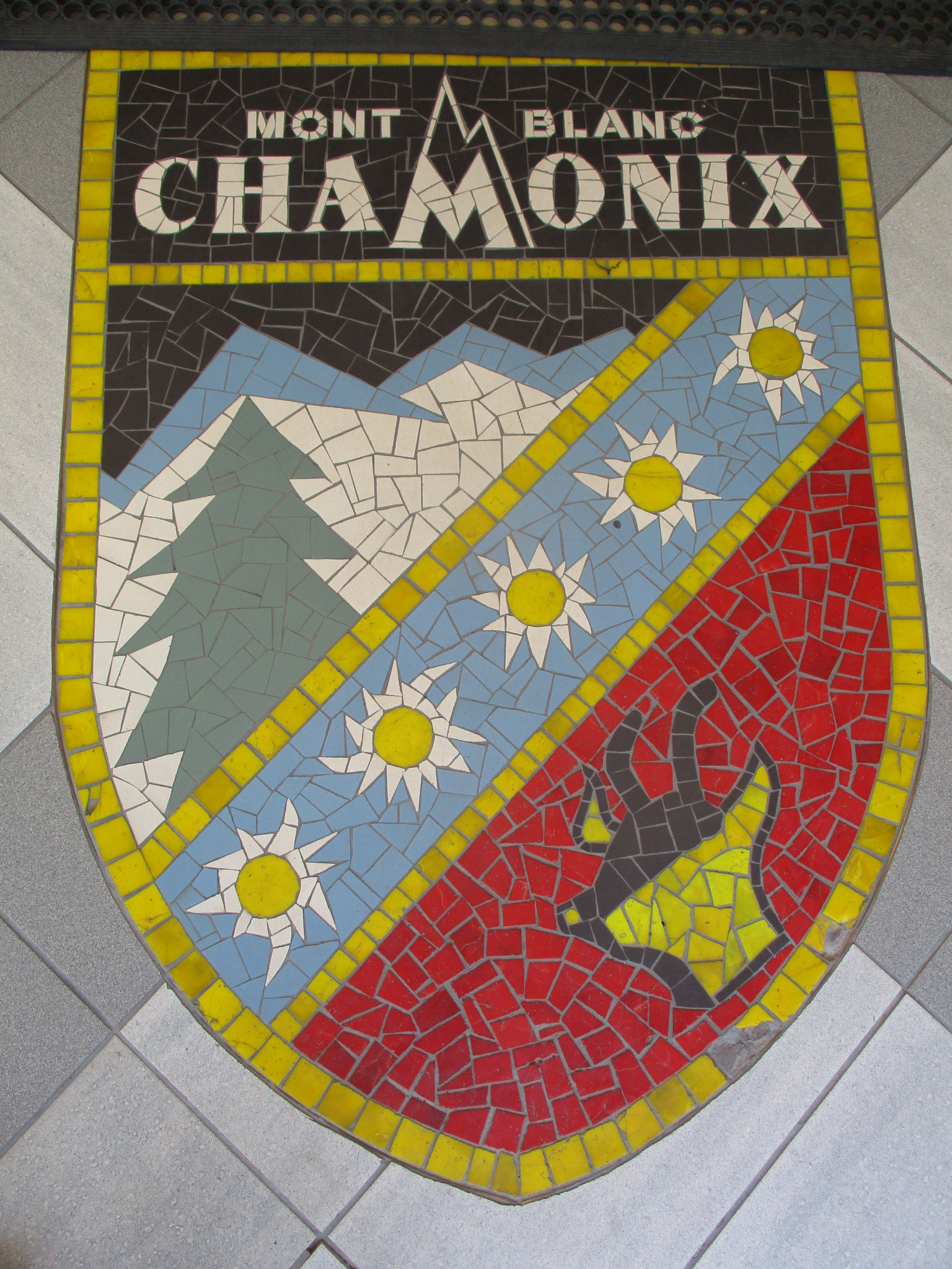 Coat of arms of Chamonix.